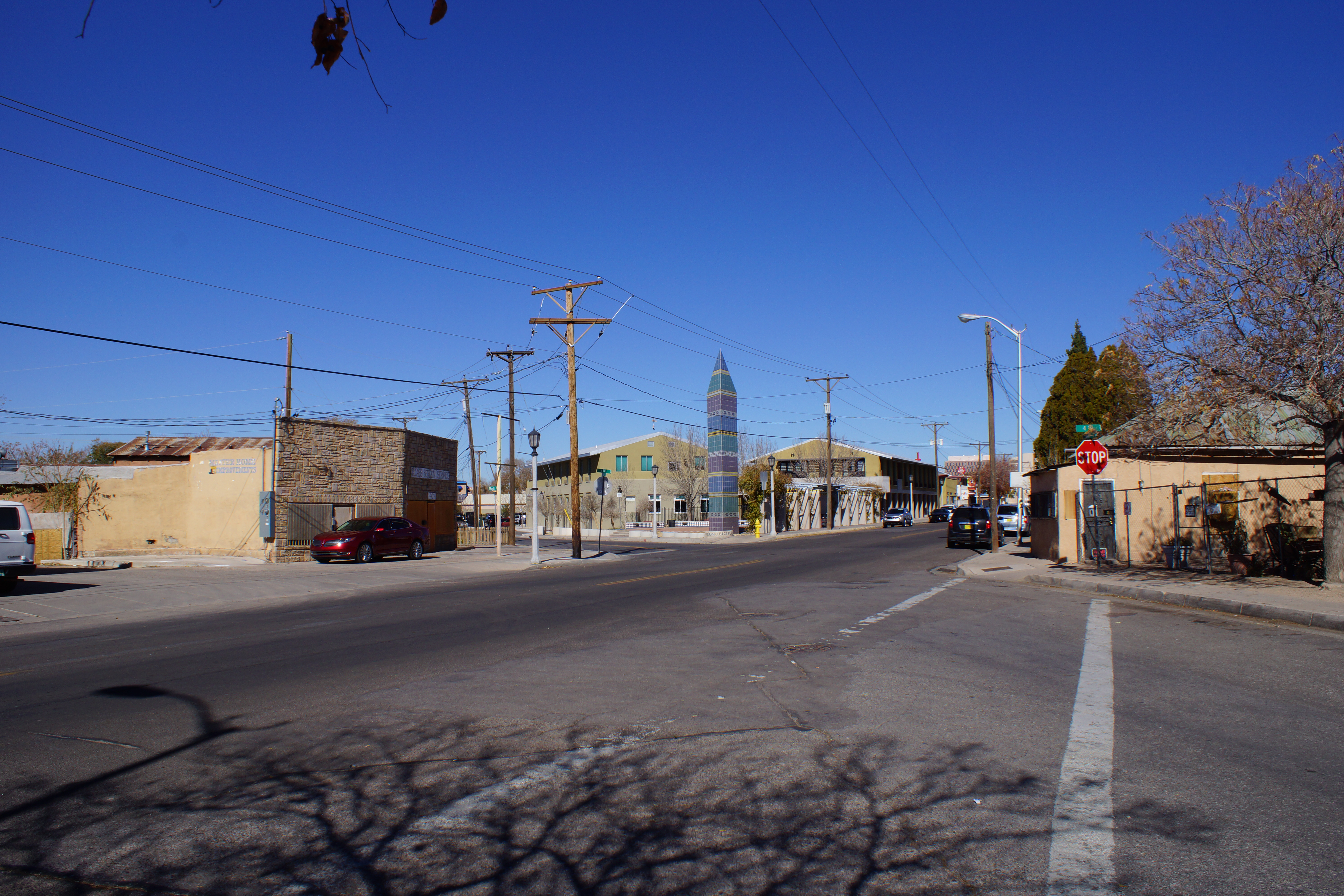 2013, 4th Street SW and Barelas Street